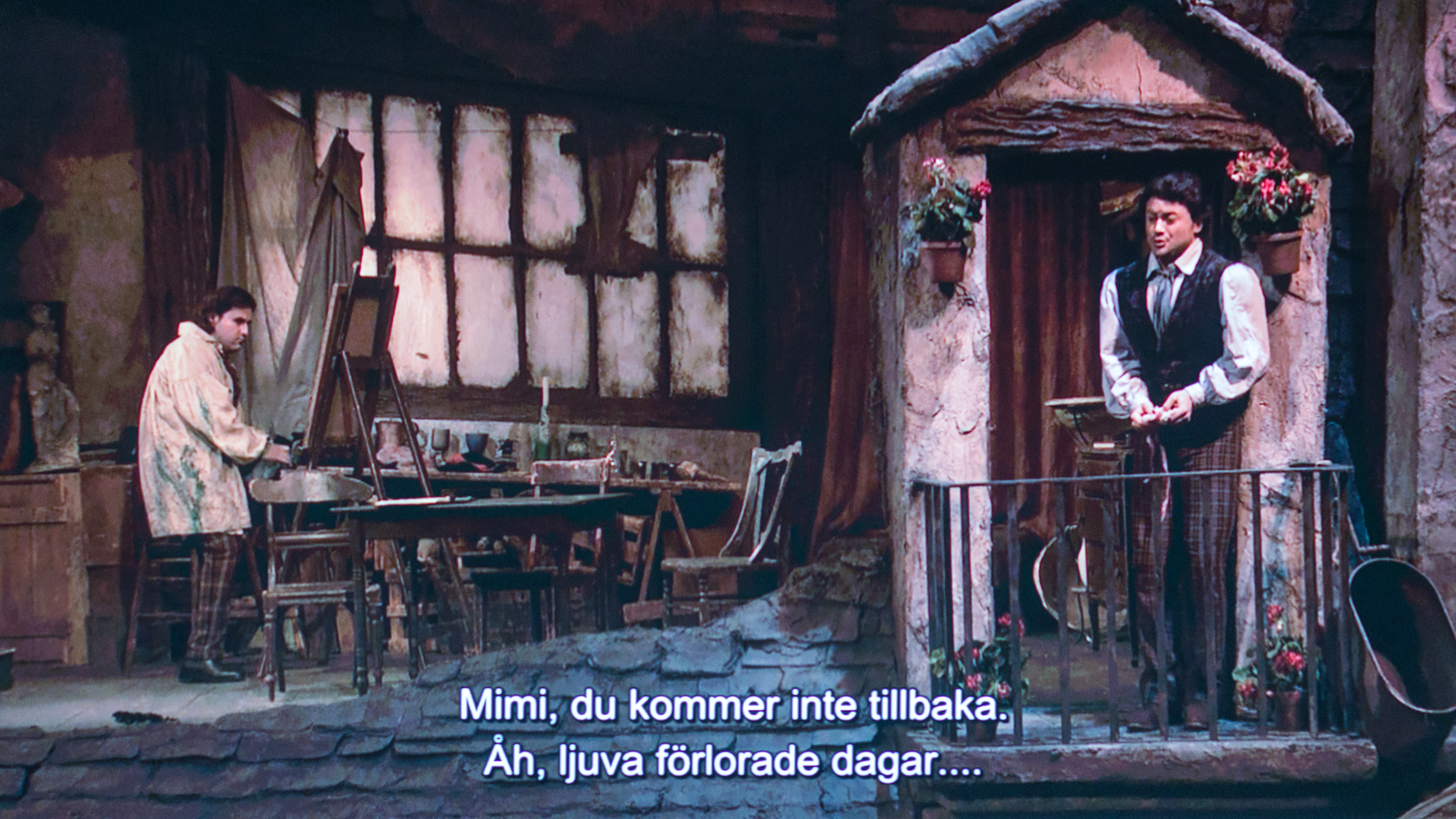 La Bohème from the Metropolitan Opera April 2014